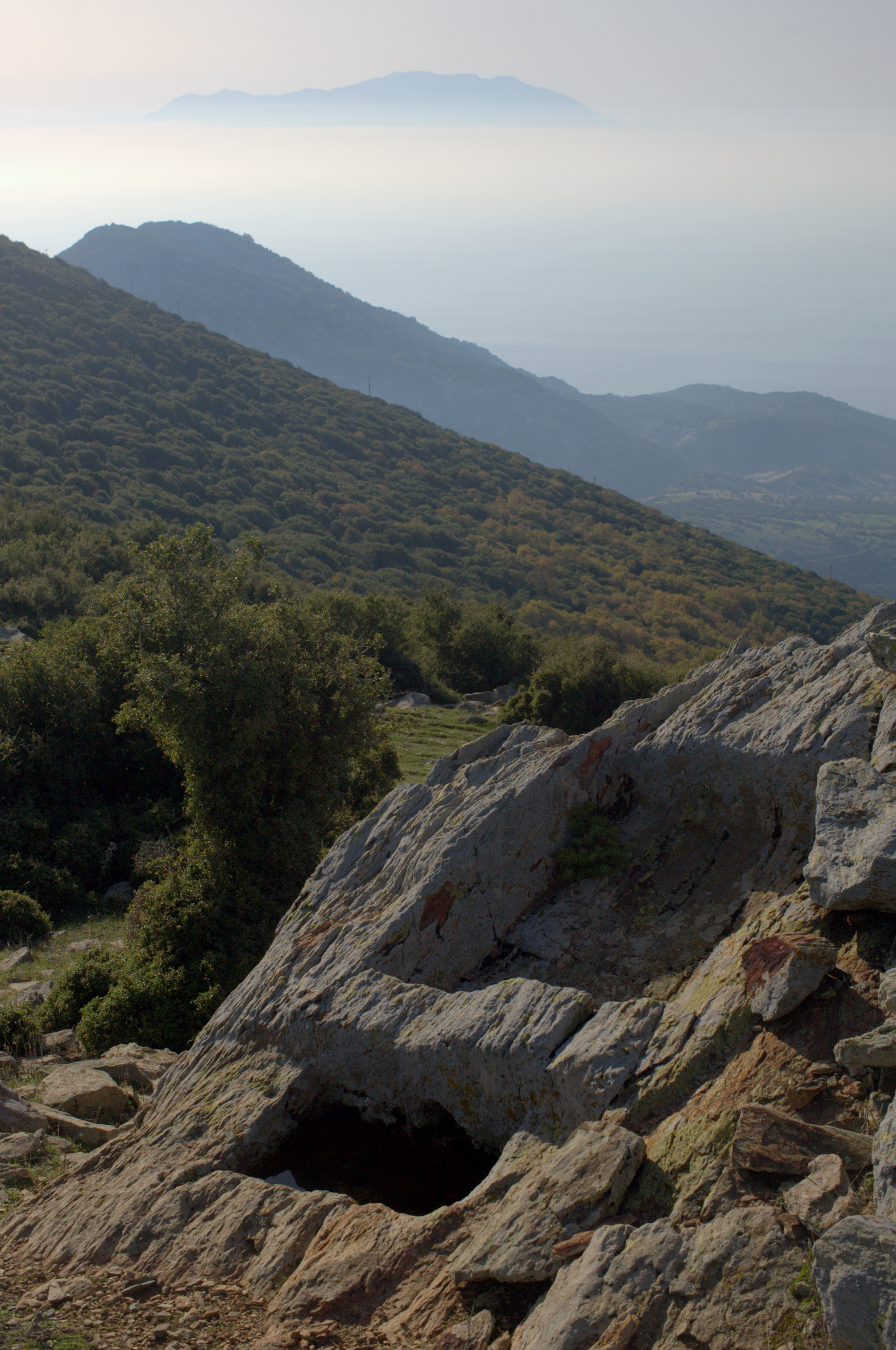 Ismaros mountain and the view of Samothrace island, Maronia - Thrace - Greece.